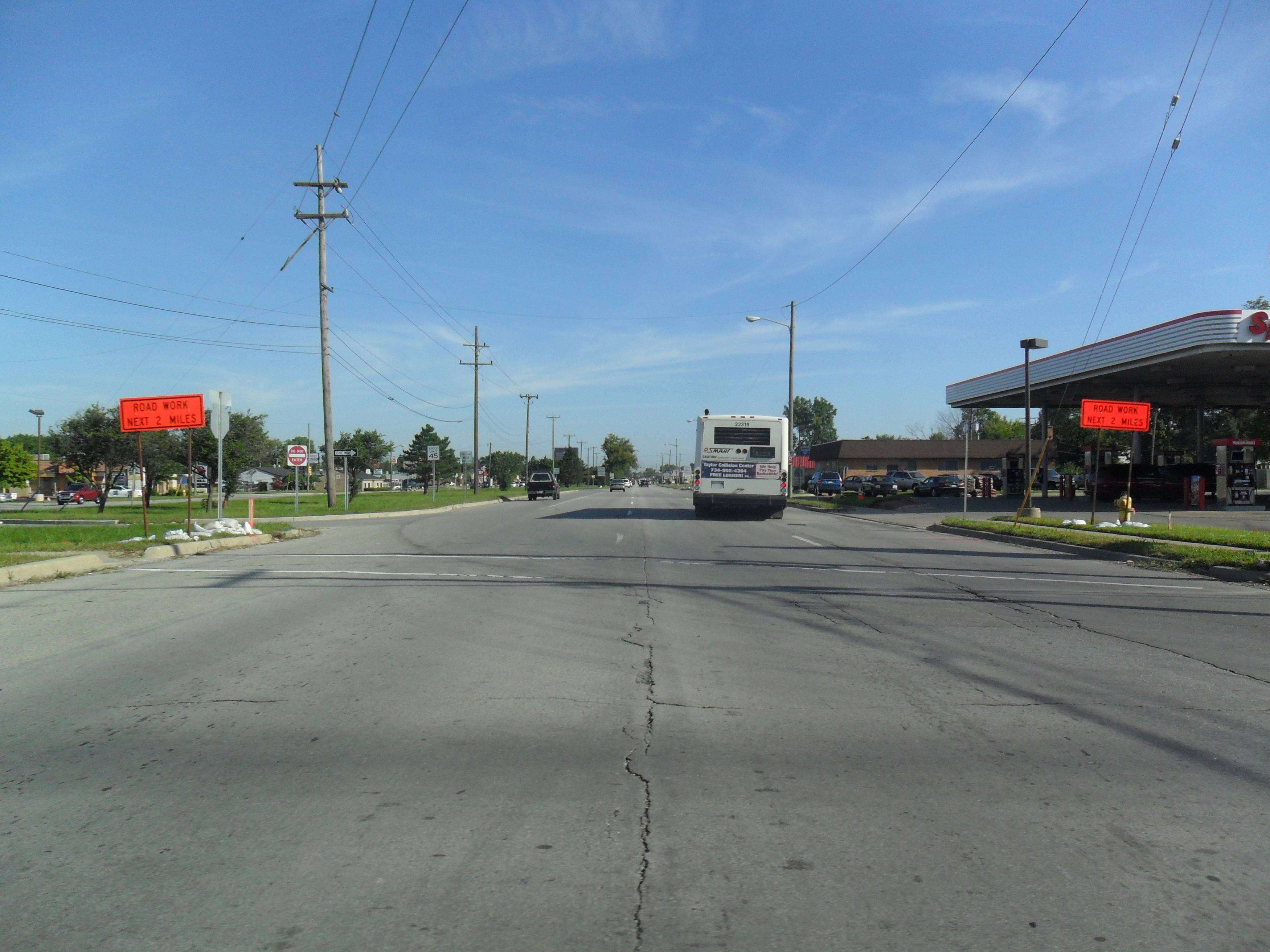 Fort Street at Sibley Road in Riverview, Michigan, looking north